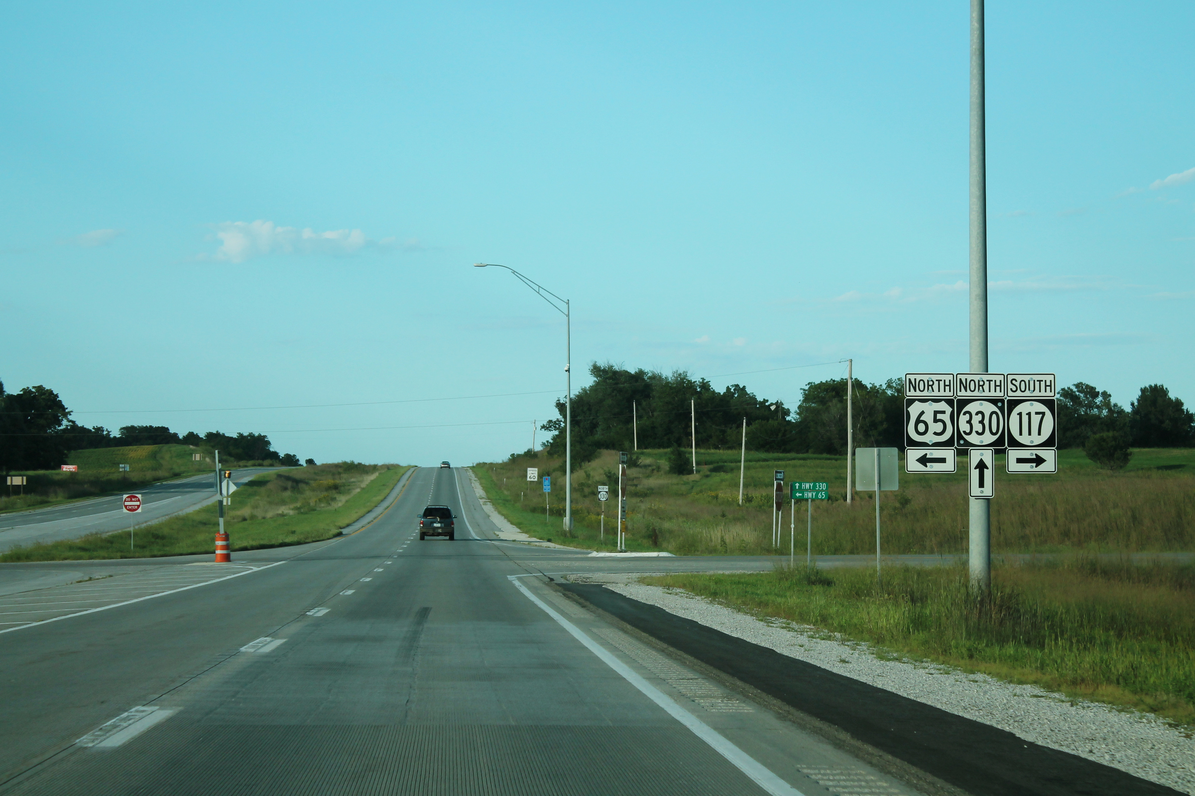 US65nIA330nIA117sSignsRoad